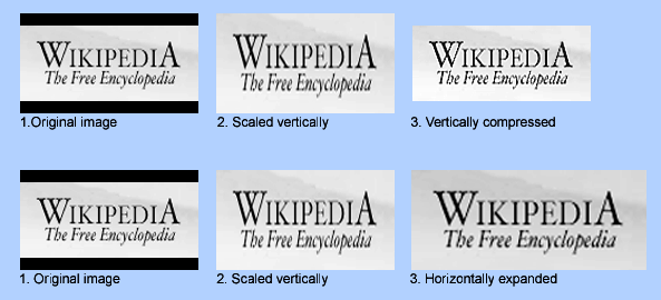 Increasing the resolution of 2.35:1 widescreen video on a DVD disk by eliminating wasted pixels due to letterboxing. This is normally possible only with a front projector. 1) While anamorphically-enhanced DVD-Video contains no wasted resolution for 16:9 (1.78:1) videos, the use of black bars or mattes is necessary for wider formats such as 2.35:1 movies which are too wide to fit into the 16:9 frame. The display device would display these black bars as if they were a part of the video, wasting some of the device's native resolution. 2) To overcome the wasted resolution, the video is scaled (stretched) vertically, eliminating the black bars. This vertical stretch, via pixel interpolation, is performed by a video processor which is either a built-in component of the projector or an external model such as a Home theater PC. The image, however, becomes distorted in the process and needs to be corrected. 3) To restore the original aspect ratio, an anamorphic lens is placed in the light path of the projected image. The lens uses either vertical compression (VC) or horizontal expansion (HE). Since the lens works optically, the increase in vertical resolution is preserved. In addition, the luminance is altered: vertical compression increases the brightness of the video, while horizontal expansion decreases it.